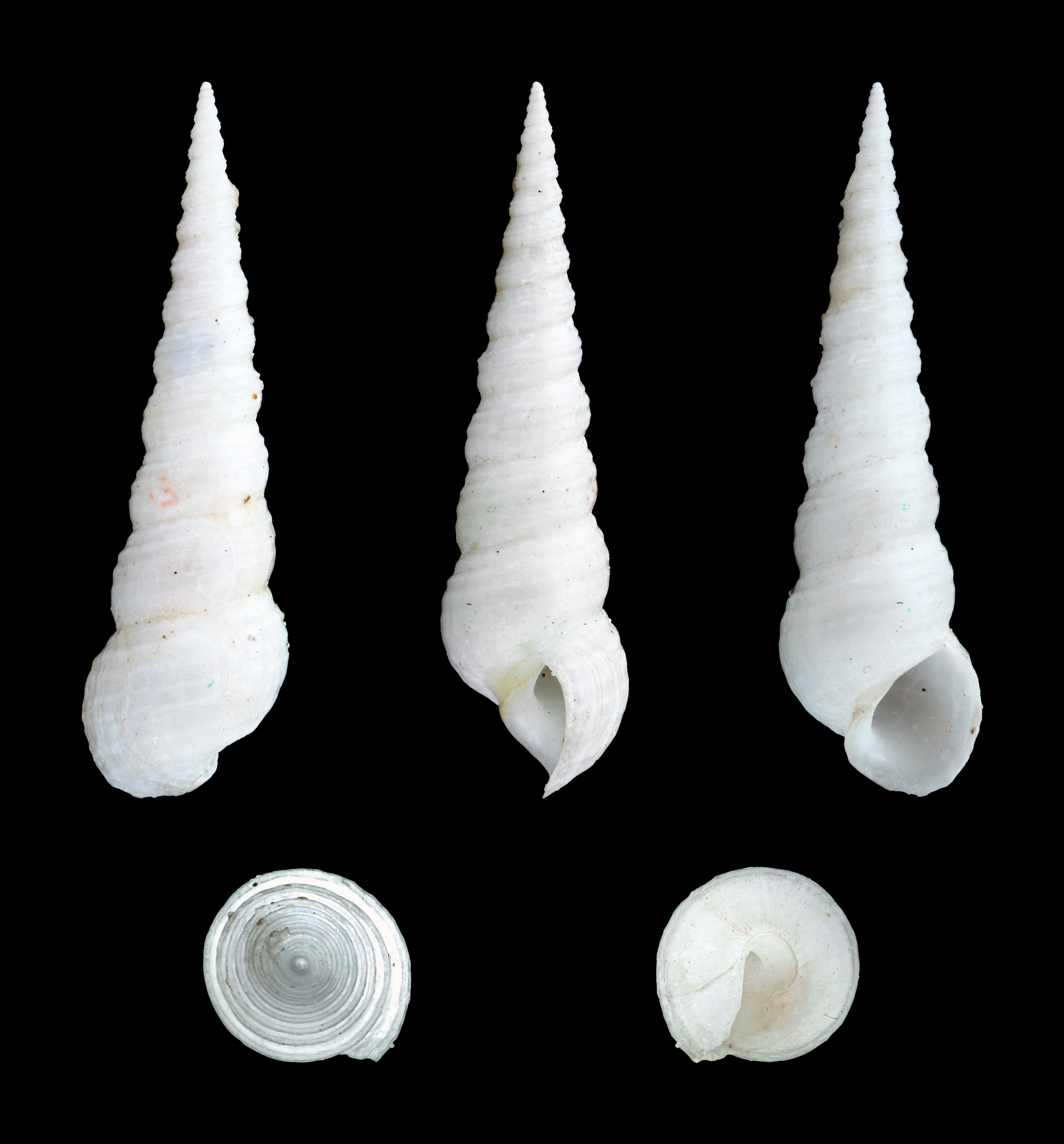 Mesal Screw Shell; Length 3.9 cm; Originating from the Atlantic coast of Western Sahara; Shell of own collection, therefore not geocoded. Dorsal, lateral (right side), ventral, back, and front view.